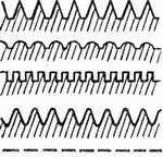 Various knifes for stamp rouletting